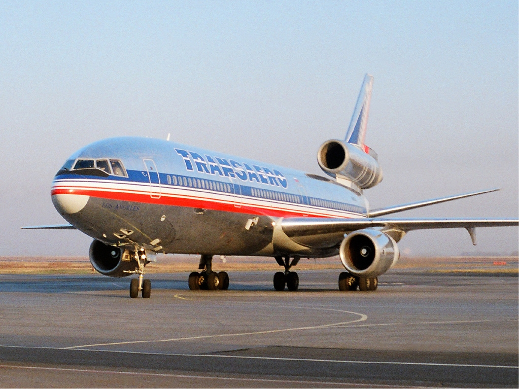 Transaero Airlines McDonnell Douglas DC-10-30